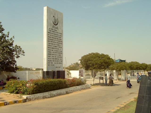 This picture is from my personal collectin. I've this picture in February 2007, and release it to the public domain.